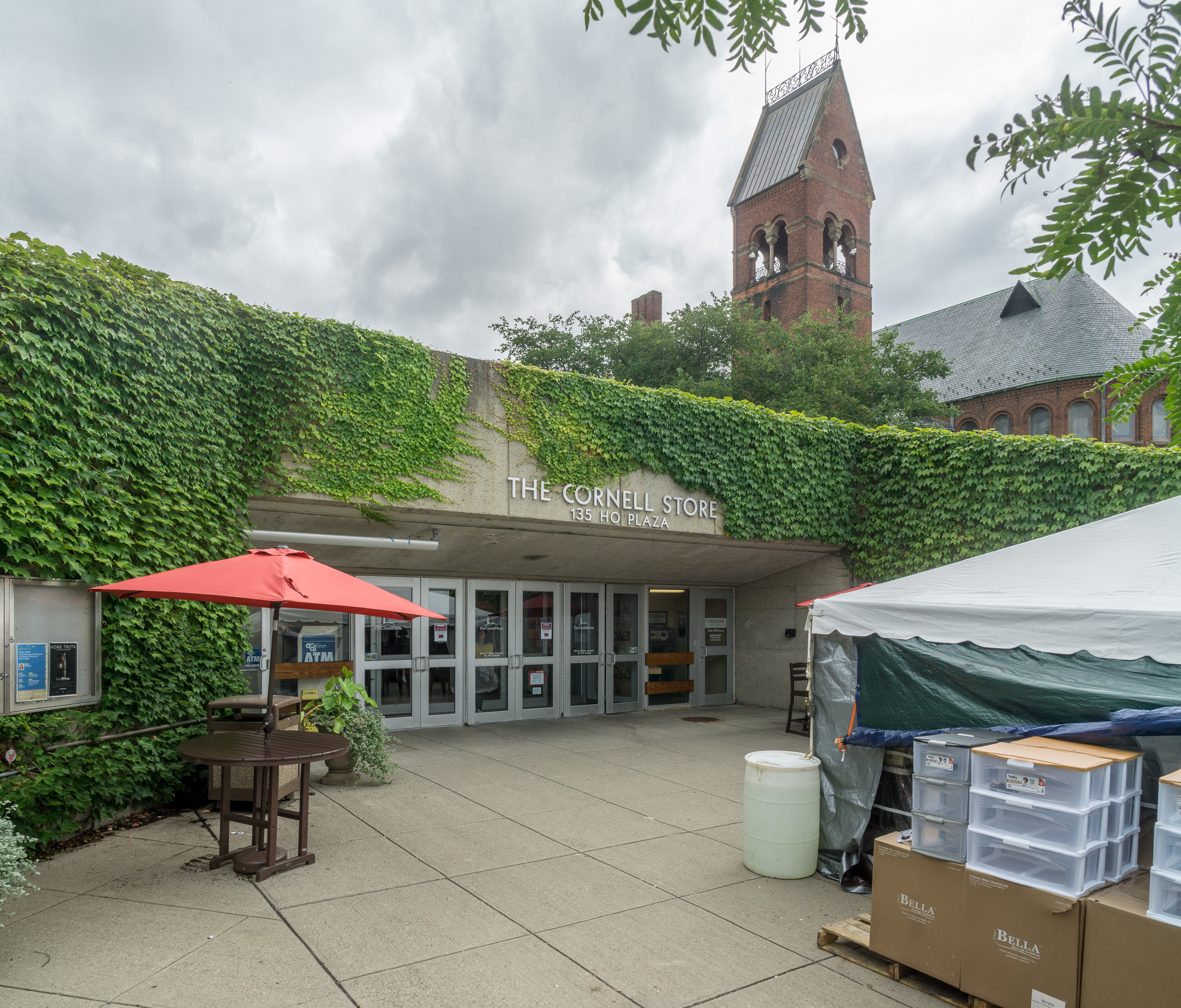 The Cornell Store, built underground. Cornell University, Ithaca, New York. Architect: Earl R. Flansburgh, built 1969. Barnes Hall (1887) is the older building behind it, with the tower.